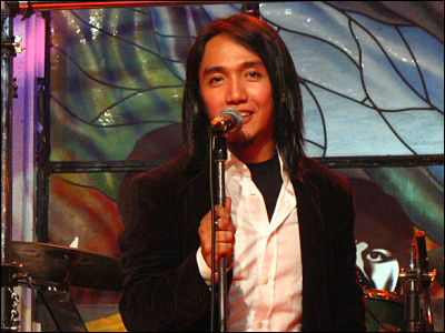 Arnel Pineda, Philipine guitarist, vocalist and singer-songwriter